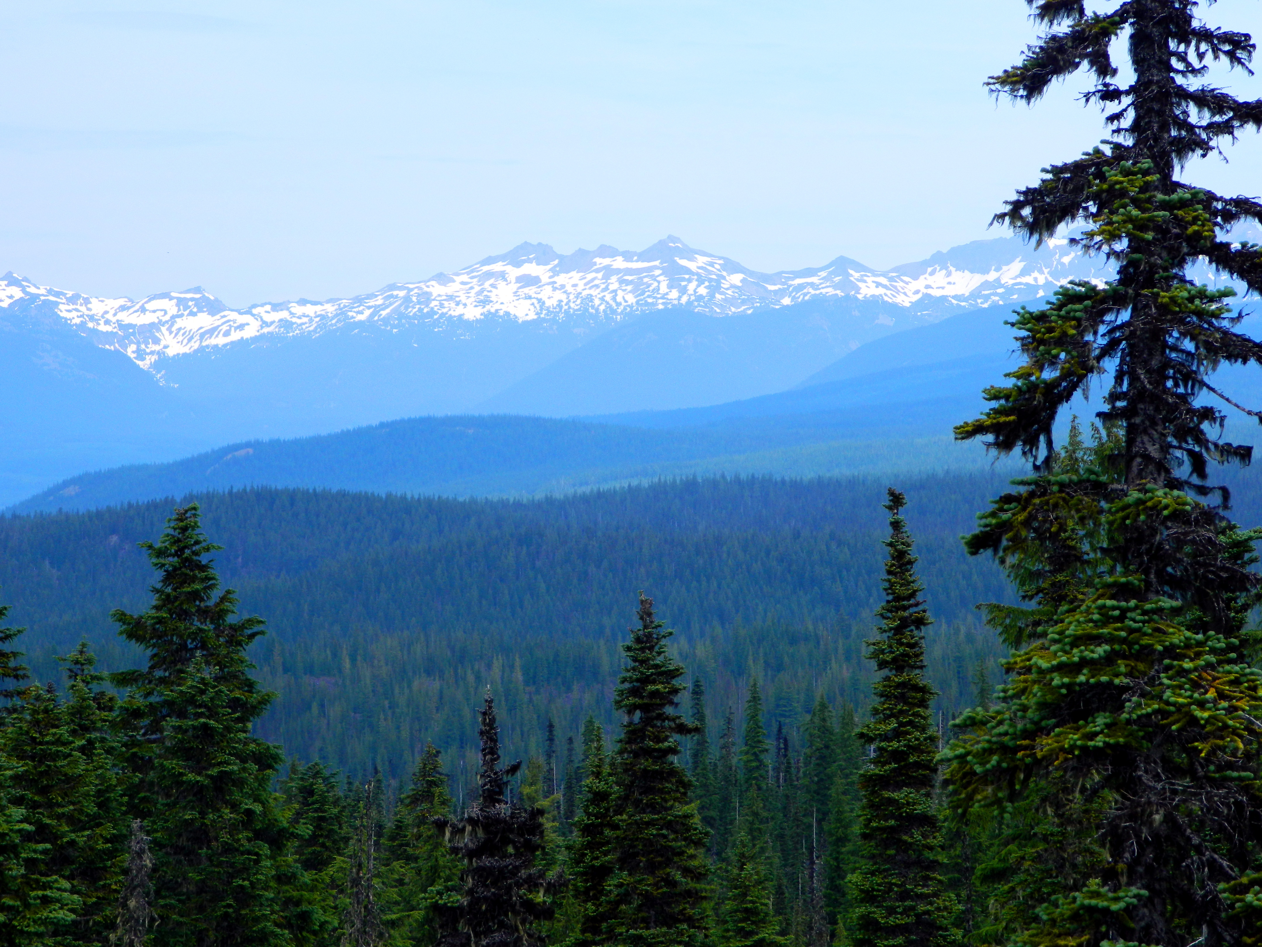 From Midway High Lakes Area of Mount Adams